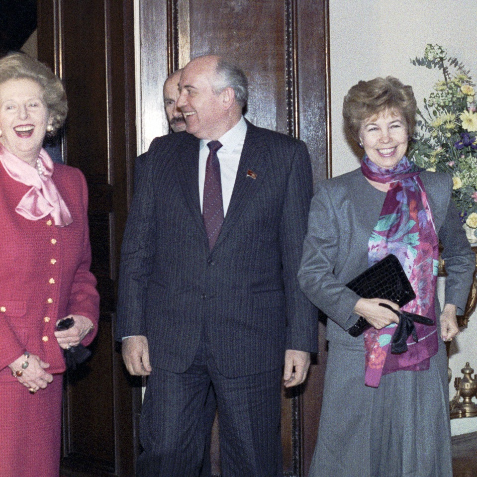 “Visit to Great Britain by General secretary of CPSU CC Mikhail Gorbachev”. The meeting between the General secretary of CPSU CC, Mikhail Gorbachev, on an official visit to Great Britain, and the British Prime Minister, Margaret Thatcher (left) at the embassy of the USSR. On the right: Raisa Gorbacheva.